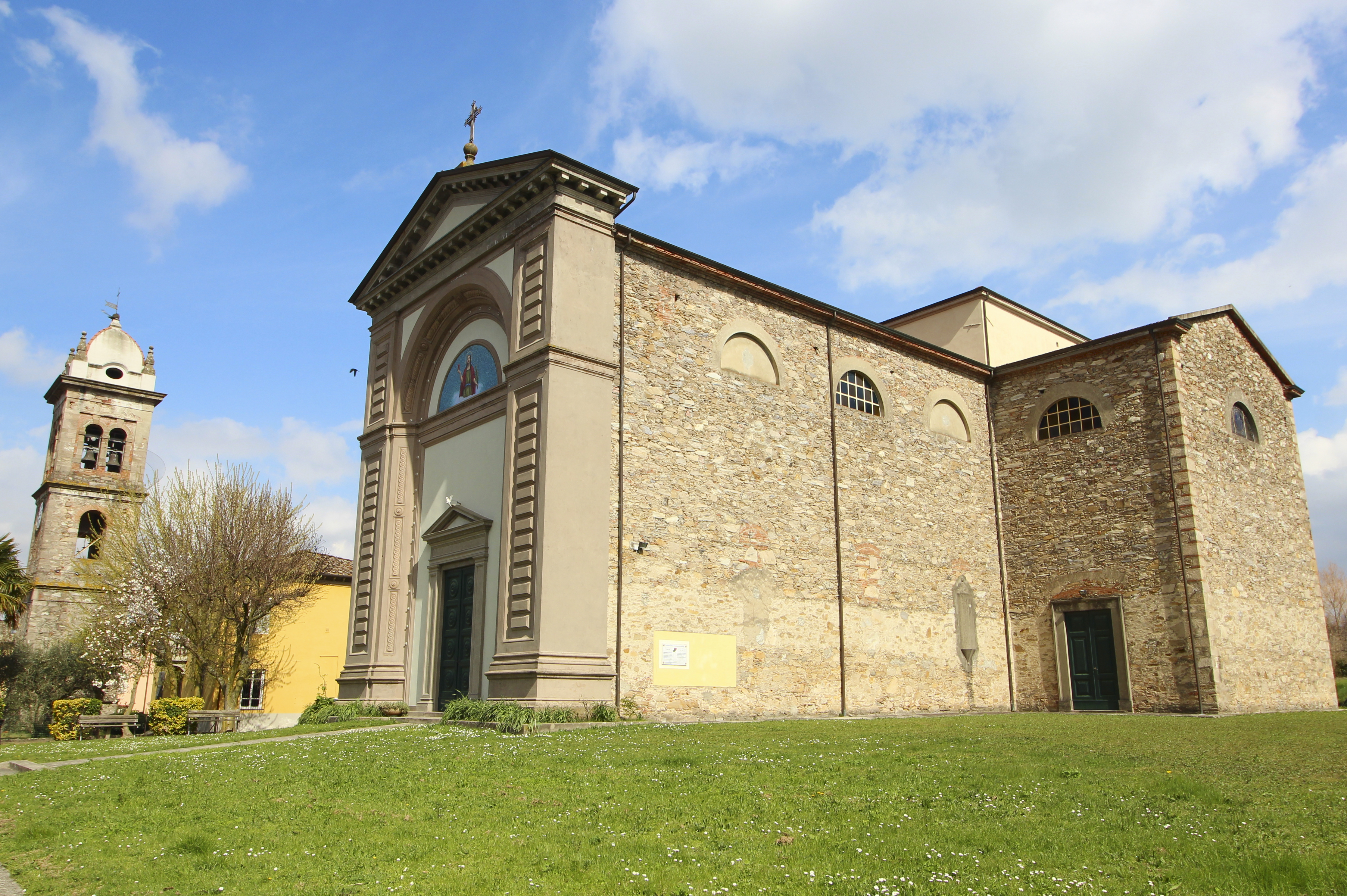 Church San Leonardo (Chiesa nuova), San Leonardo in Treponzio, hamlet of Capannori, Province of Lucca, Tuscany, Italy